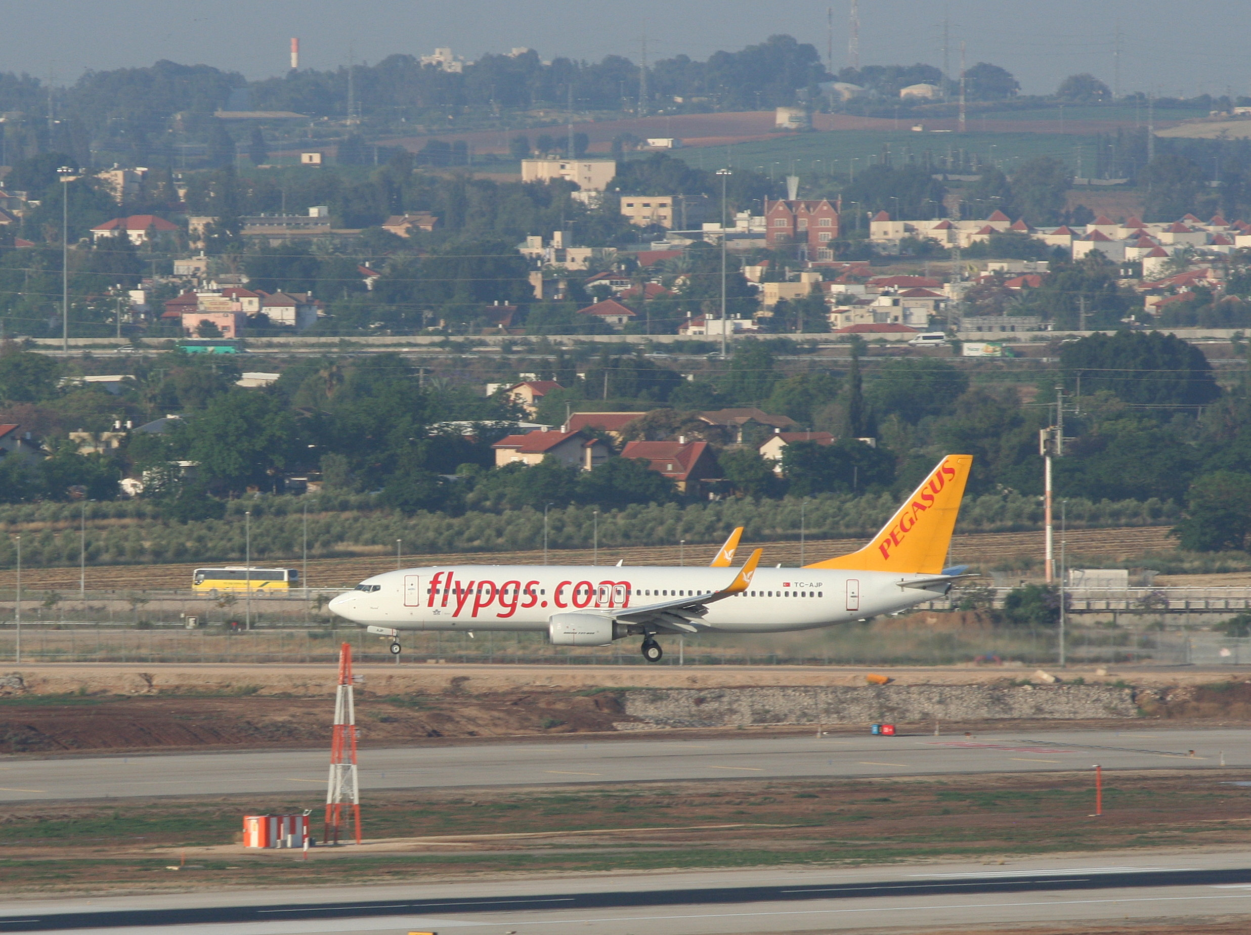 At Ben Gurion International airport.